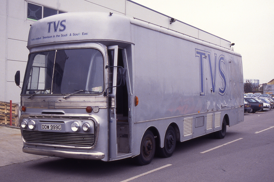 TVS Outside Broadcast Unit 1 mobile control room behind the studio building at Northam. Scanned from a Fujichrome 35mm slide.